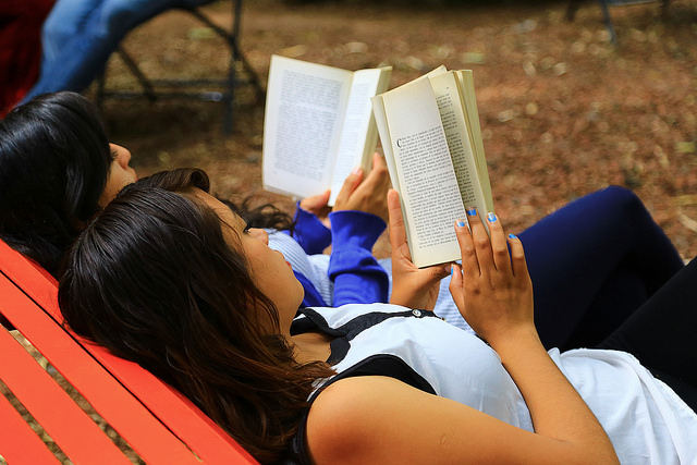 Chapultepec's Audiorama, First Section of Chapultepec Park, Mexico City, Mexico